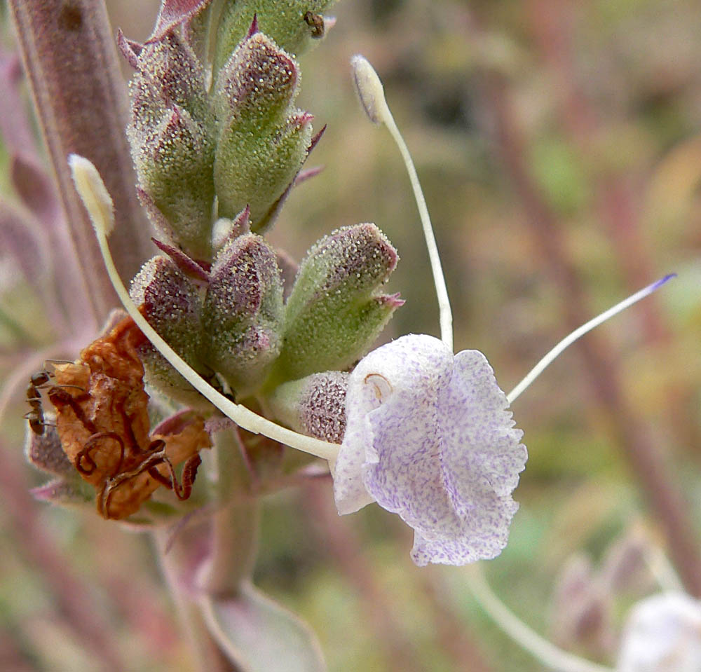 Photo of Salvia apiana at the Regional Parks Botanic Garden